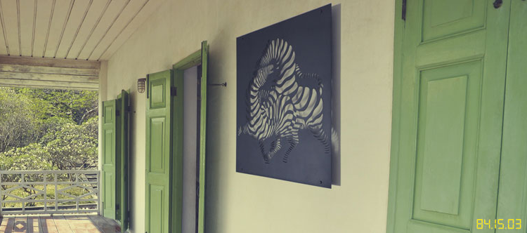 Steelgraphics from Cape Town